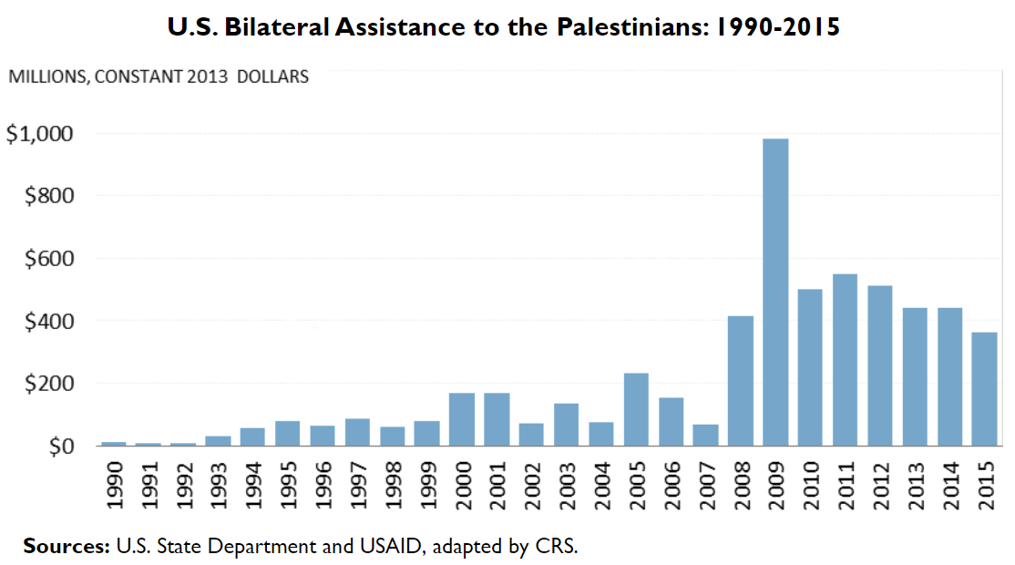 Congressional Research Service. Total US aid to PA 1990-2015 (in 2013 USD).